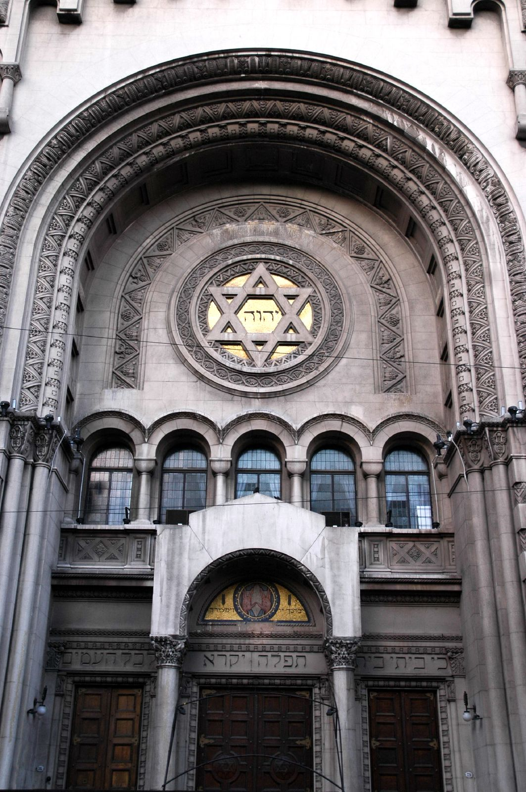 Synagogue of the Jewish Congregation of Argentina's Repúblic (CIRA), called Liberty Temple (Templo Libertad). Buenos Aires, Argentina.